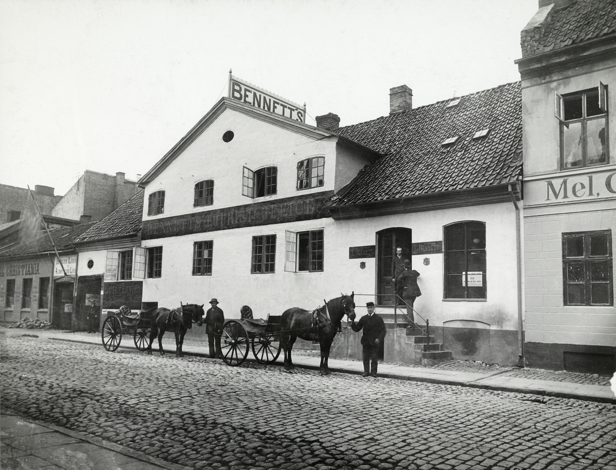 Depicted place: Bennett Reisebureau